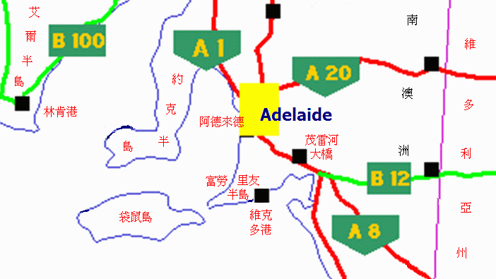 Fleurieu Peninsula in South Australia.